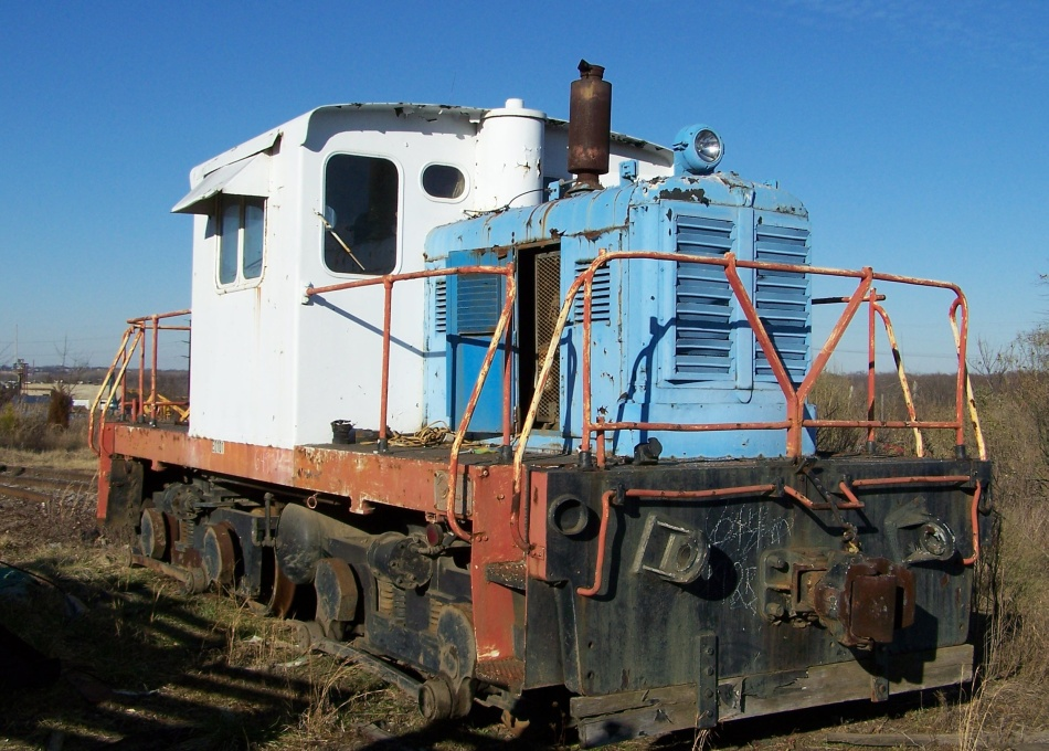 Photo by William J. Grimes. Baldwin-Lima-Hilton 50-Tonner, Richmond, VA.